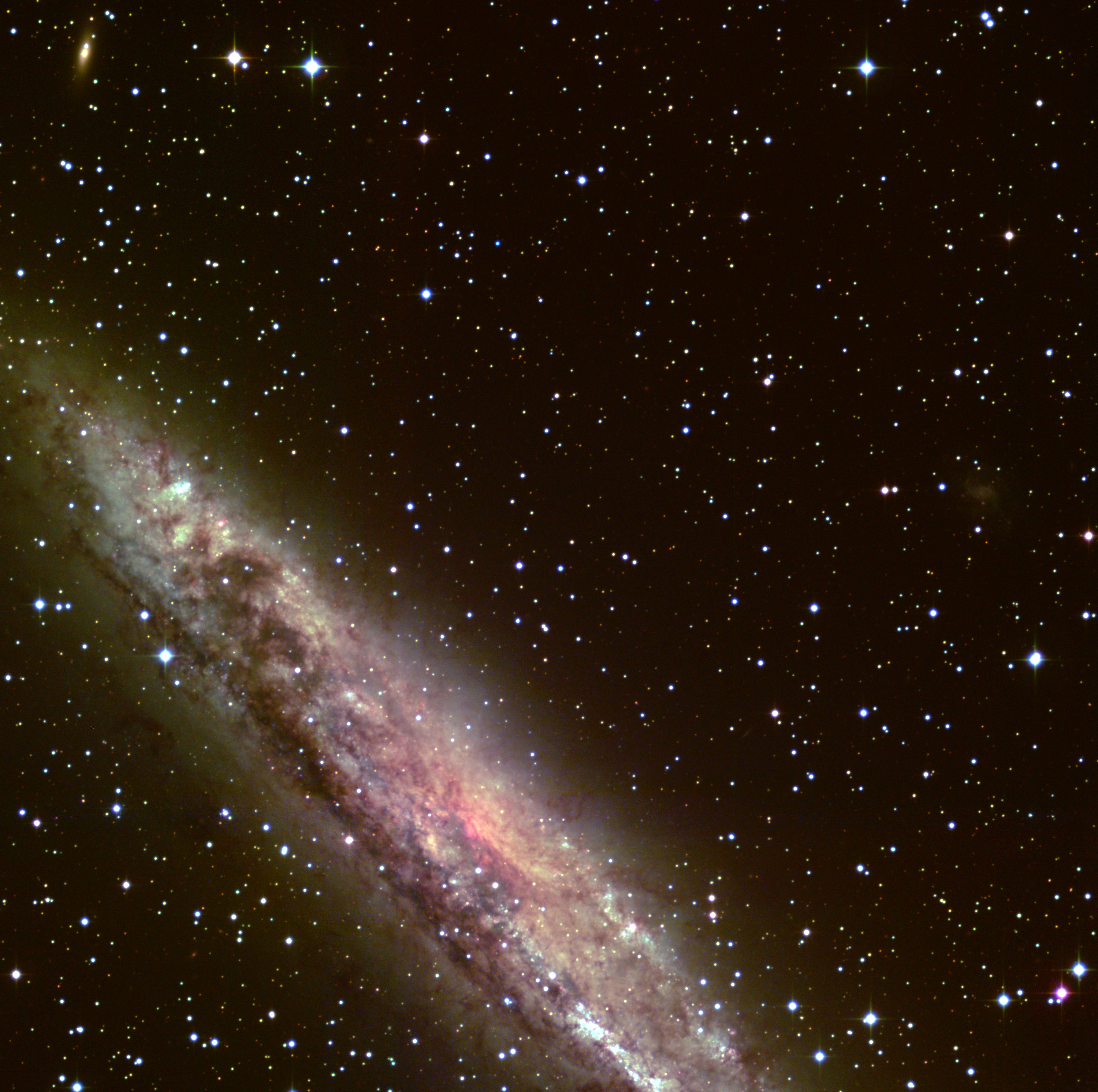 This image is an enlargement at full resolution of a smaller region (about 1/7 by area) of a sky field around the spiral galaxy NGC 4945 . It is assembled from five 15-minute R(ed)-narrowband (shown in red), four 5-minute B(lue)-band (shown in green), and five 1000-second U(ltraviolet)-band (shown in blue) exposures, obtained in January 1999 during the Science Verification phase with the Wide-Field-Imager (WFI) at the MPG/ESO 2.2-m telescope at La Silla. At the recession velocity of NGC 4945 , the red filter, centred at 665 nm with an FWHM (full width at half maximum) of only 1.2 nm, does not include the H-alpha emission line of interstellar hydrogen in this galaxy. The original resolution of about 1 arcsec corresponds to roughly 62 light-years at the distance of NGC 4945 (13 million light-years). In addition to NGC 4945 itself, some much more distant galaxies can be recognized as faint, slightly red light patches in the field. The vast majority of the point-like sources are stars in the Milky Way. However, a fair number of those near NGC 4945 are globular clusters belonging to this galaxy. Each frame records 8184 x 8196 = 67,076,064 pixels, and thus the total number of data points (pixels) of the 14 CCD frames used to make this photo is almost 10 9. Their collective information content corresponds to more than 70 x 10 9 photons (not counting those from the Earth's upper atmosphere that were recorded simultaneously). It covers 2997 x 2998 pixels and measures about 12 x 12 arcmin 2 in the sky. Note the many background galaxies in the field. ID: phot-18b-99 Press Photo: 18/99 Object: NGC 4945 Telescope: 2.2m Instrument: WFI Size: 2999x2984 Credit: ESO